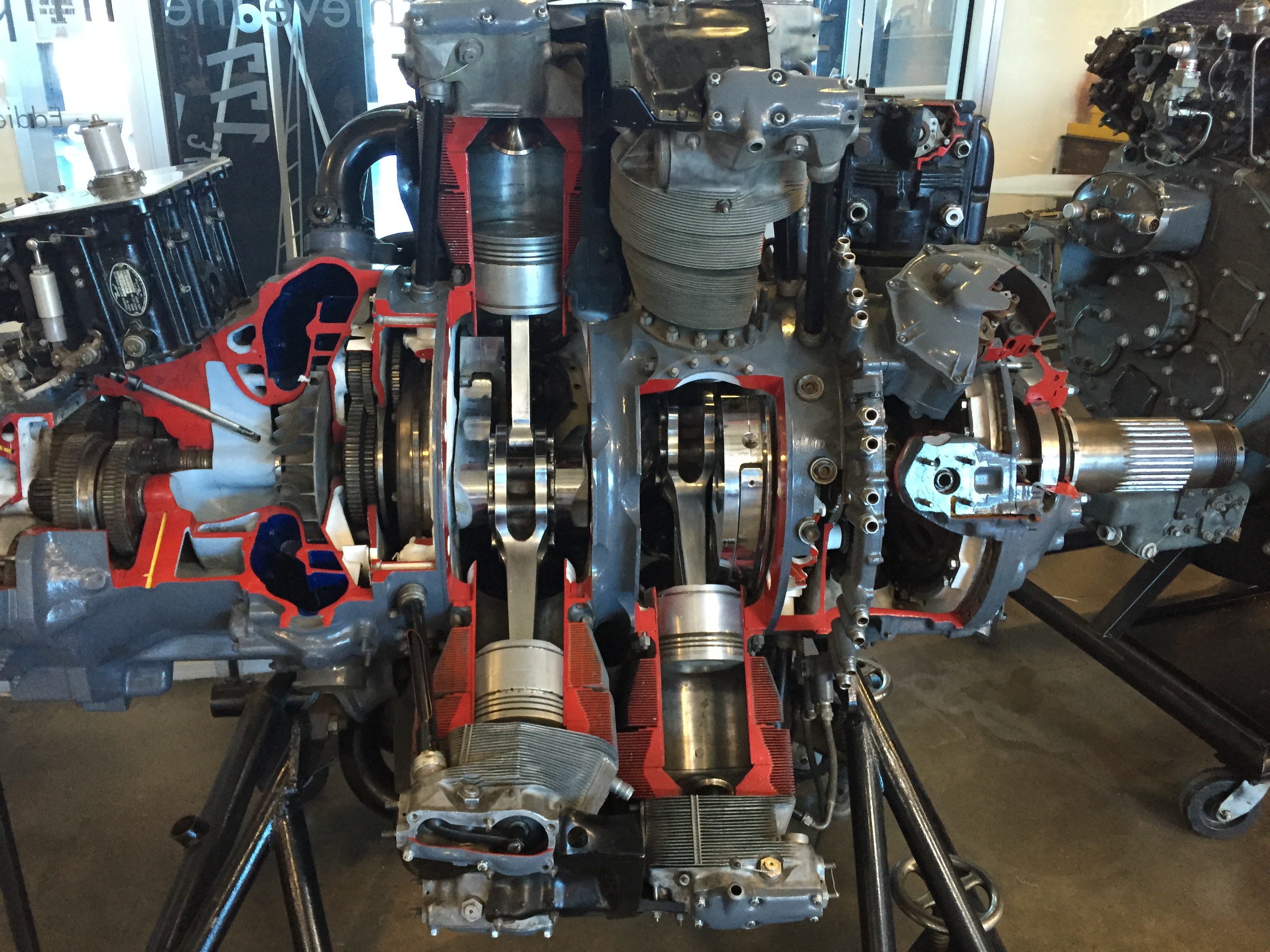 Cross Section of a Pratt and Whitney R2800 Double Wasp.